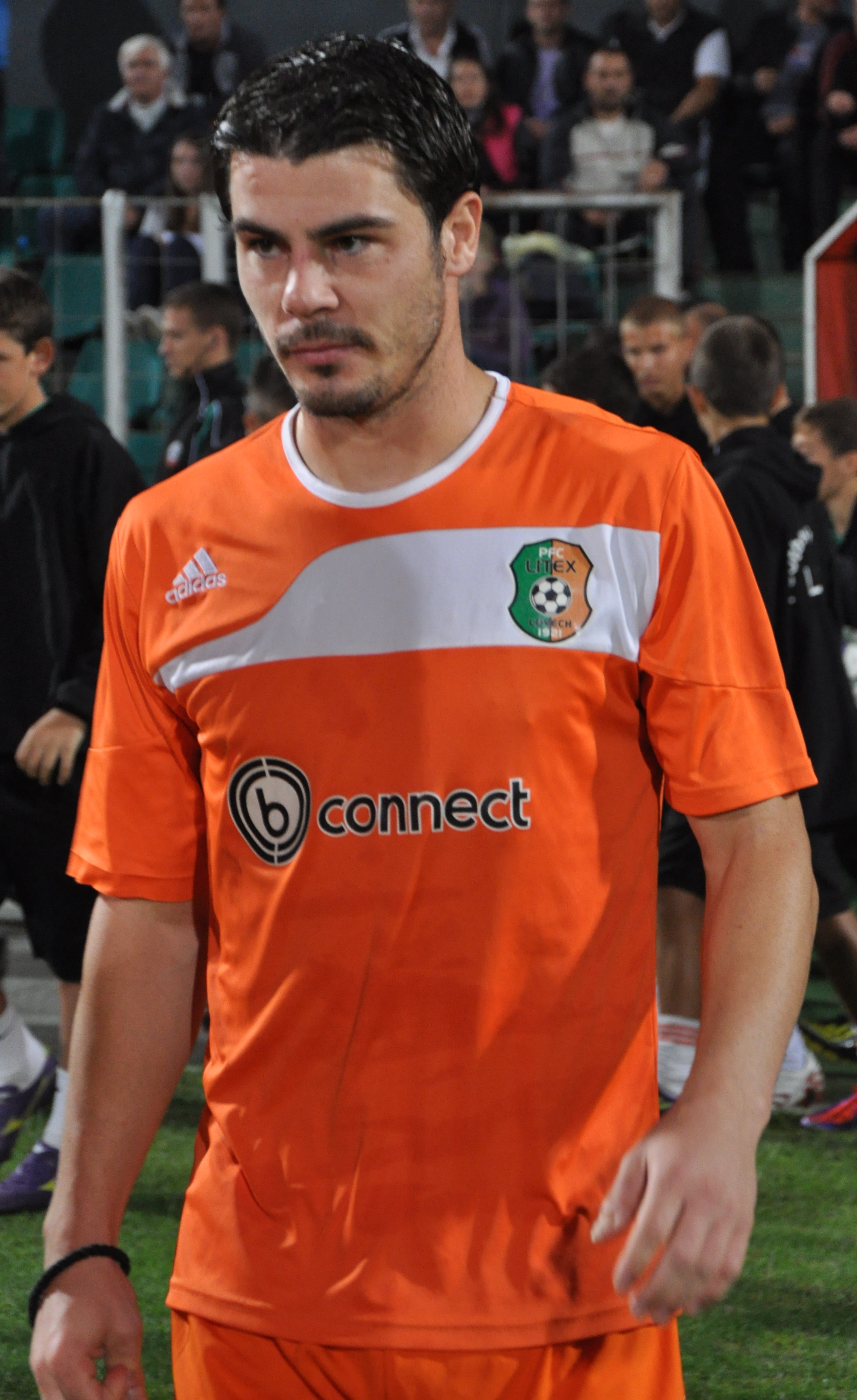 Galin Ivanov